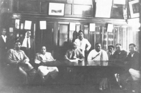 Dr. Babasaheb Ambedkar with Jogendra Nath Mandal and Consitituent Assembly members.